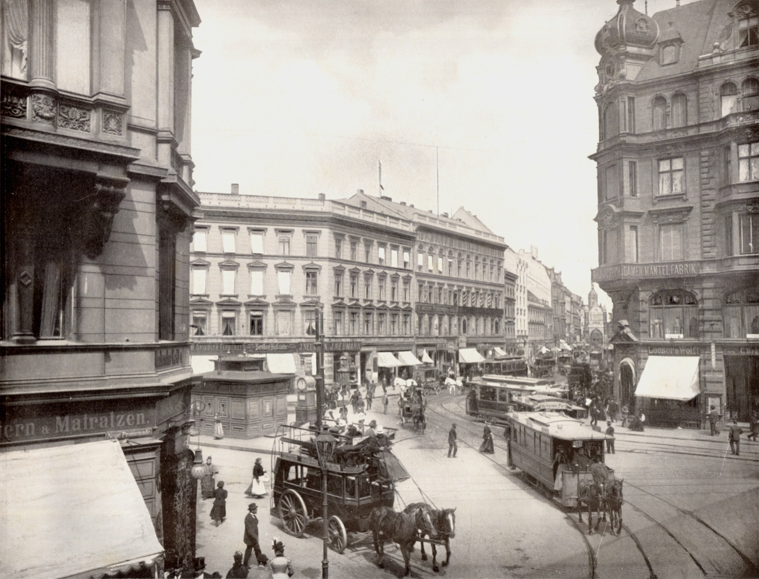 View on the Hackescher Markt and Rosenthaler Straße in Spandauer Vorstadt, Berlin (now in Mitte district).